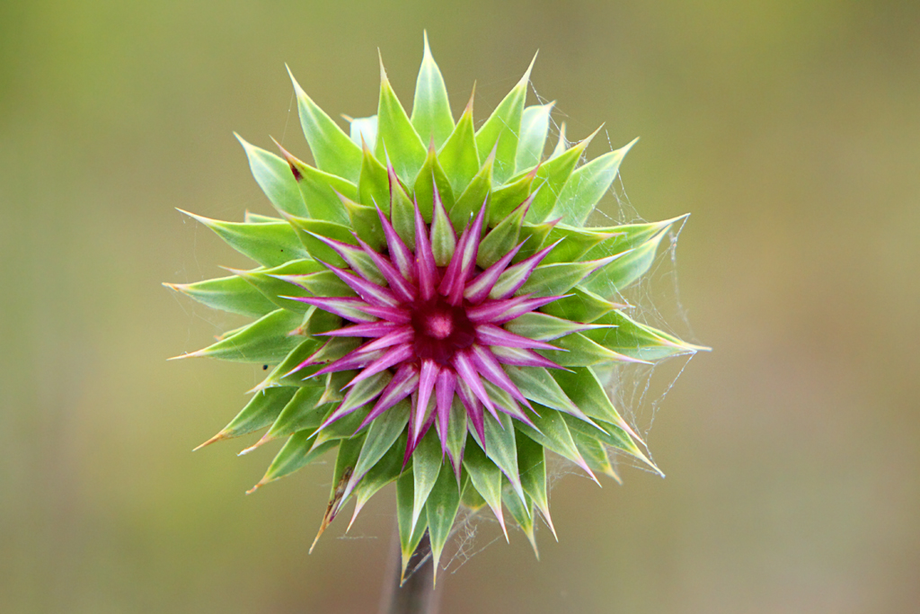 This partially opened thistle flower (Carduus nutans) was observed in the Grand Teton National Park. The Musk thistle - or Nodding thistle - is an invasive plant native to Europe and Asia. Reference It is nevertheless an attractive flower.